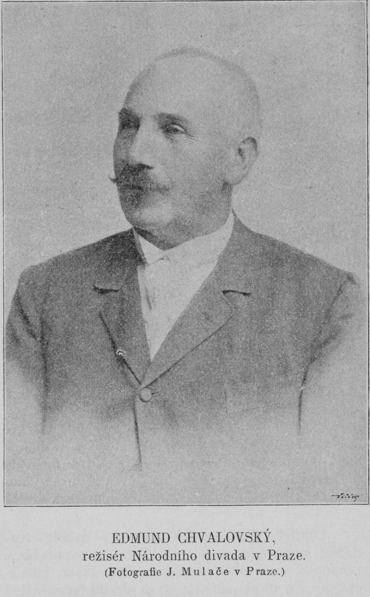 Portrait of Edmund Chvalovský (1839 - 1934), Czech actor